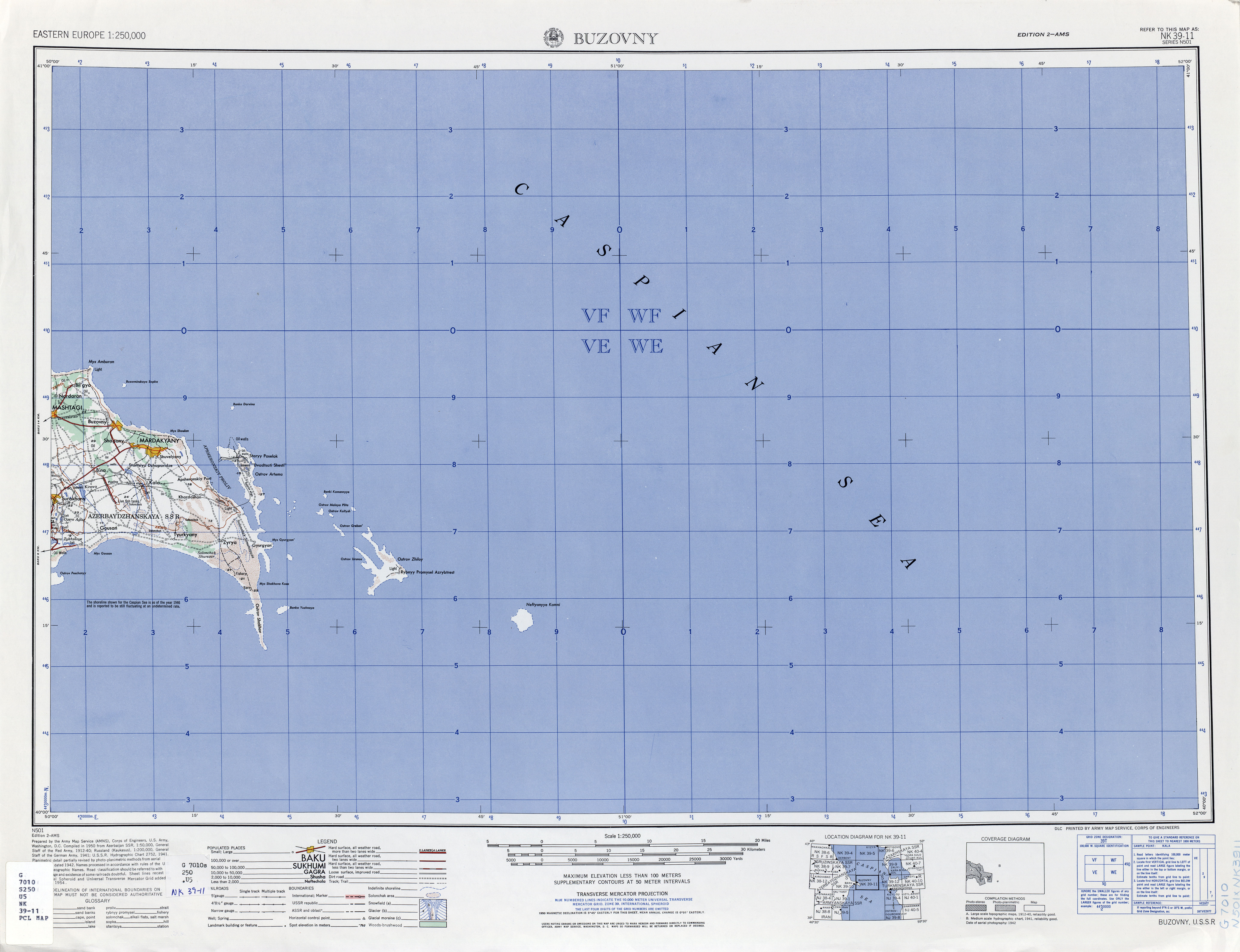 List from Eastern Europe AMS Topographic Maps. Series N501, U.S. Army Map Service, 1954